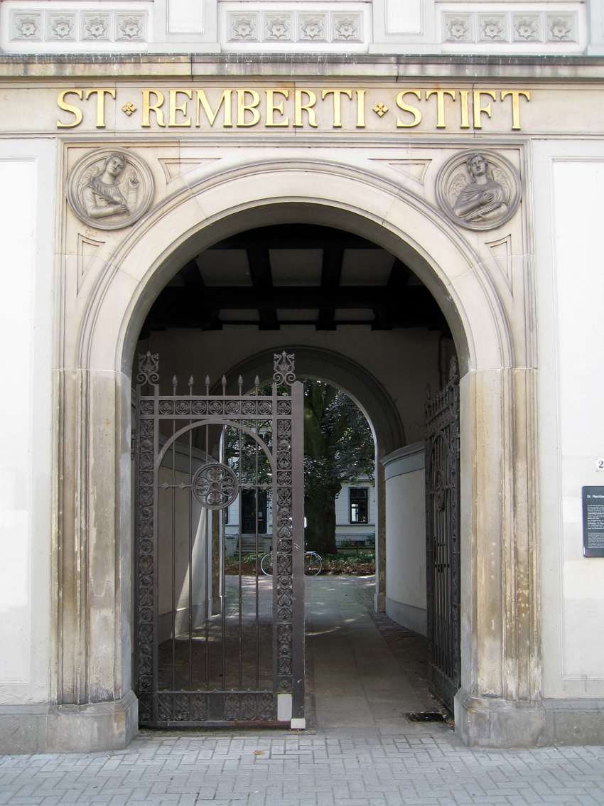 Entrance portal of the St.-Remberti-Stift in Bremen, Germany.